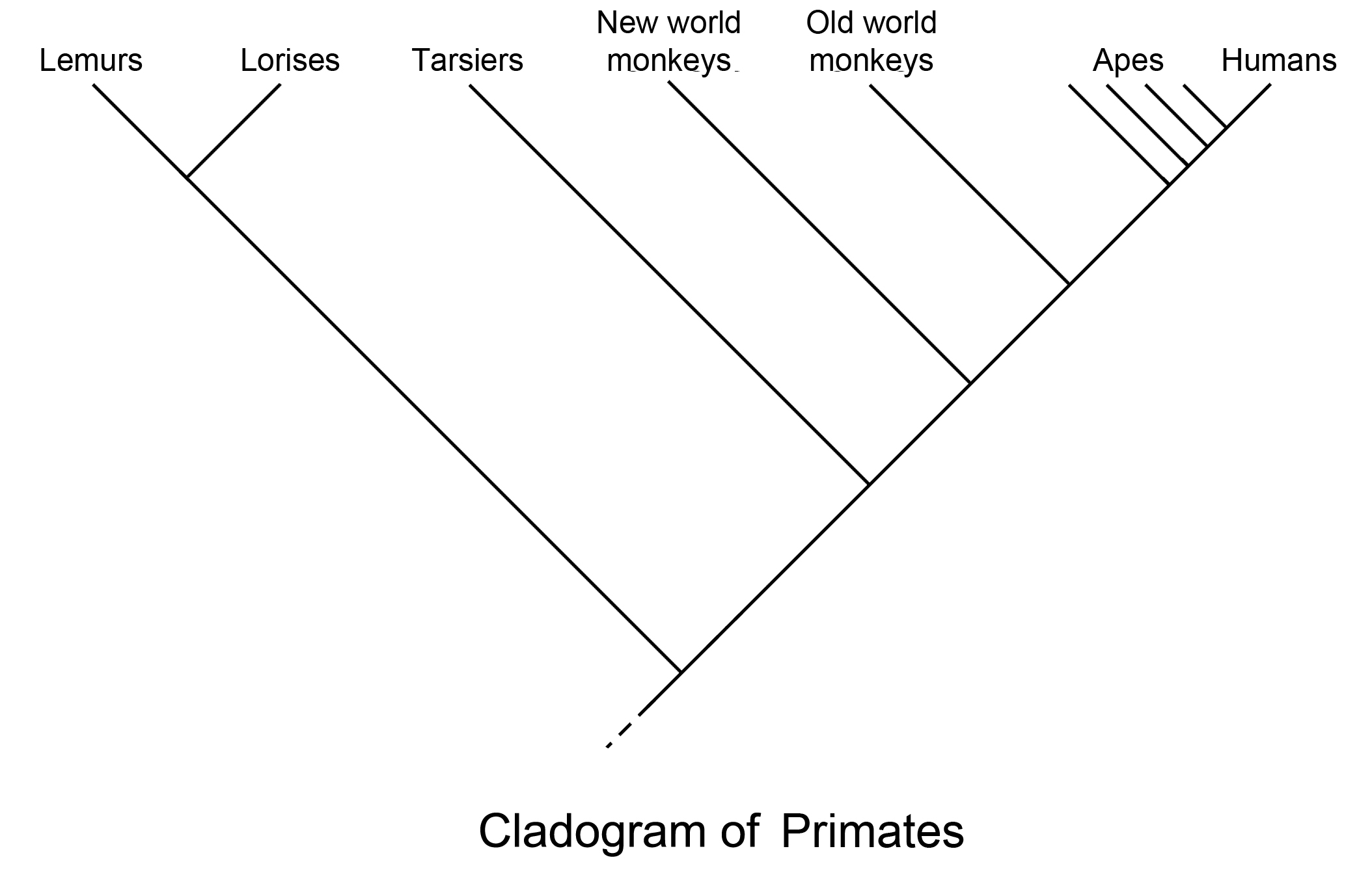 Cladogram of the the primates, with English captions of vernacular names